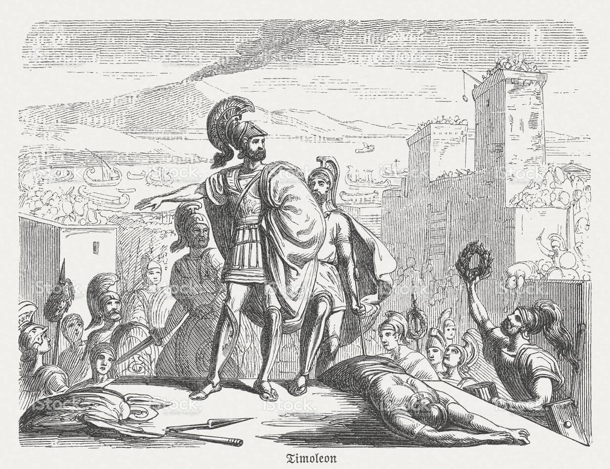 Timoleon in Syracuse, 344 BC